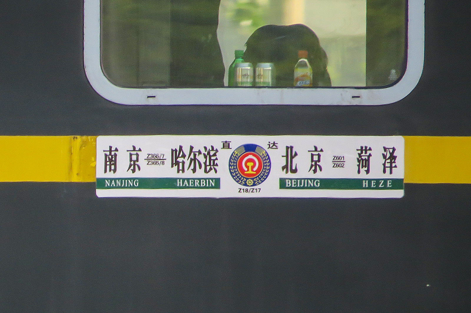 Nanjing-Harbin-Beijing-Heze.